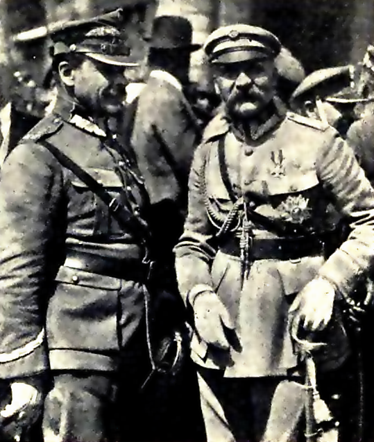 Józef Piłsudski and Józef Haller after victory in battle of Warsaw in 1920